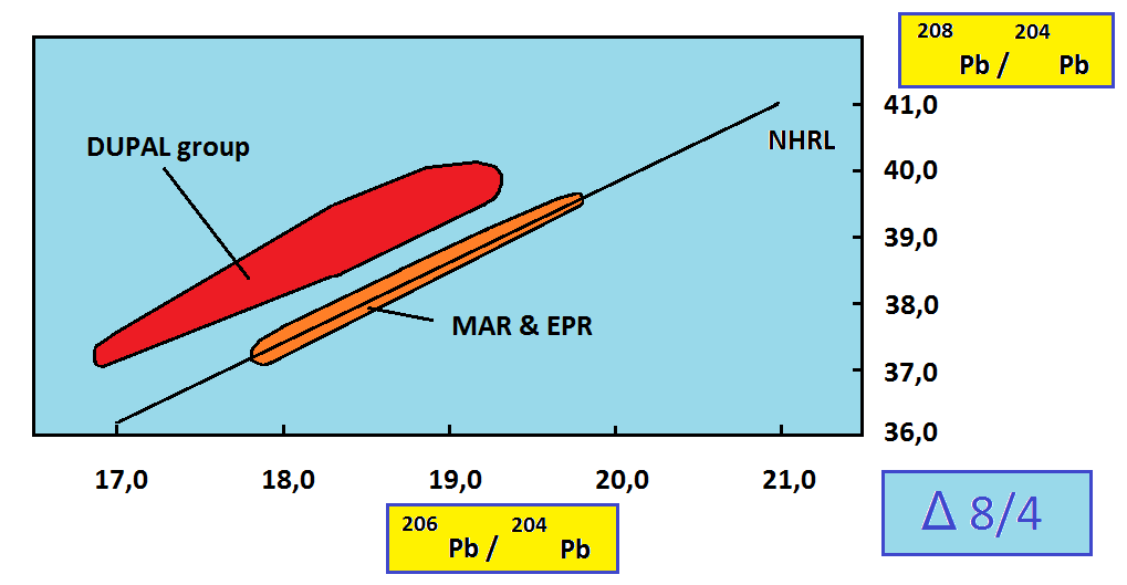 Delta 8/4 diagram depicting the lead isotope ratios (208Pb/204Pb versus 206Pb/204Pb) of ocean island basalts of the DUPAL group in comparison with the NHRL (Northern Hemisphere Reference Line) and the mid-ocean ridge basalts of the Mid-Atlantic Ridge (MAR) and the East Pacific Rise (EPR).